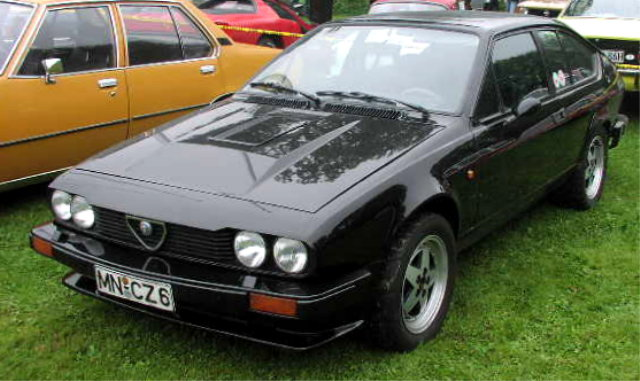 Alfa-Romeo GTV Coupe